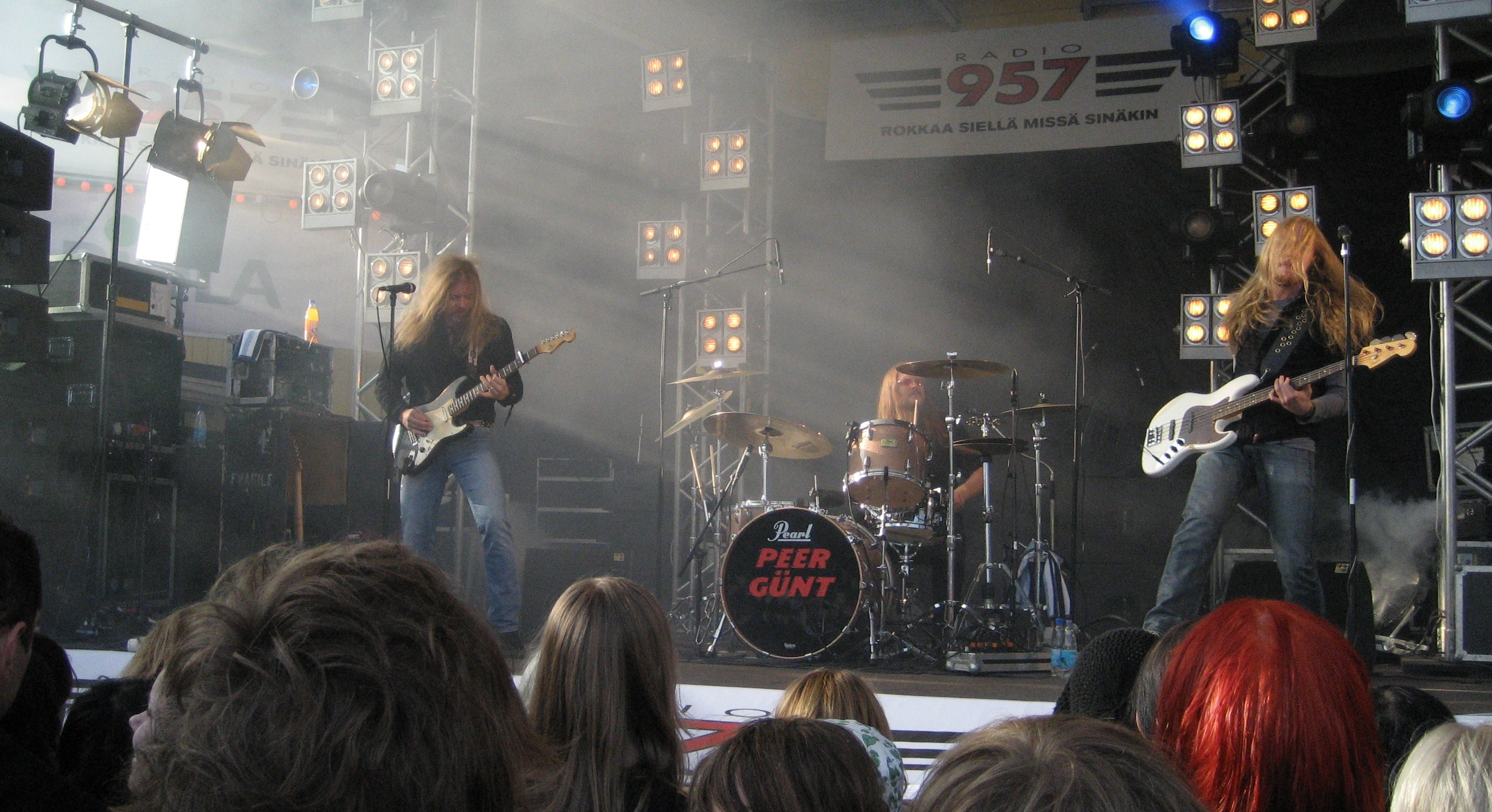 Finnish hard rock/heavy metal band Peer Günt